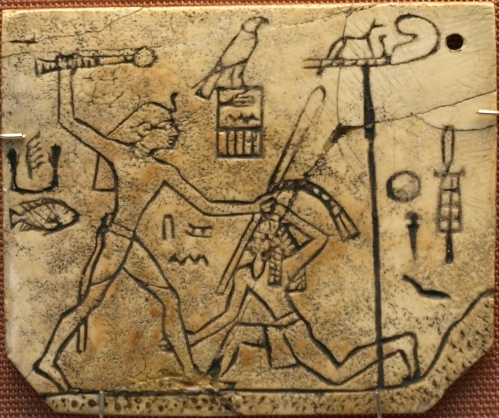 Ivory label depicting the pharaoh Den, found at his tomb in Abydos, circa 3000 BC. Originally attached to a pair of royal sandals, which is depicted on the reverse. The side shown here depicts the pharaoh striking down an Asiatic tribesman along with the inscription "The first occasion of smiting the East". EA 55586.(First: is the "archaic dagger" hieroglyph-(vertical)